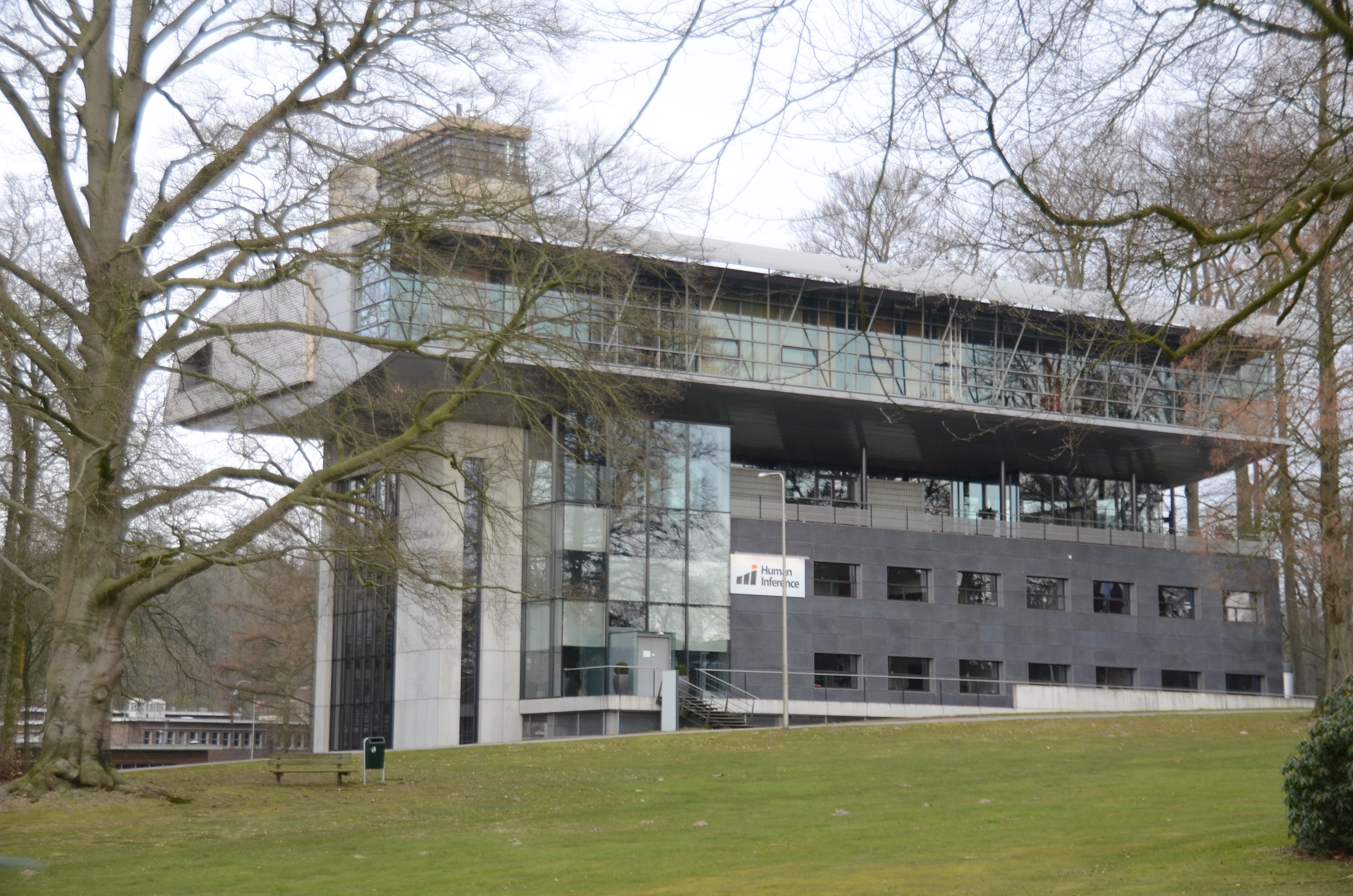 Modern architecture at KEMA terrain in Arnhem; Arnhems Buiten